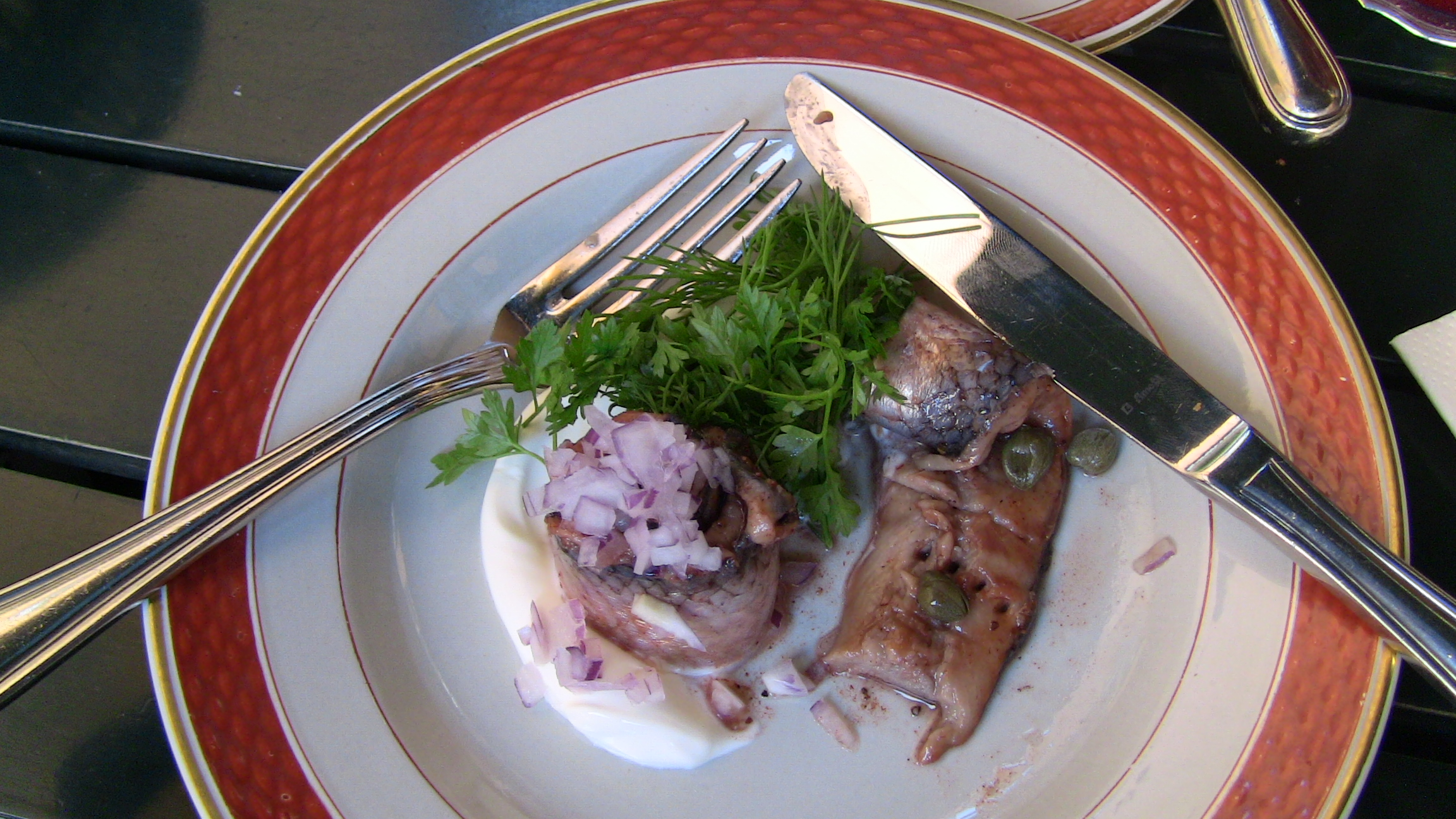 Danish Herring Cold Dish served in a restaurant in Copenhagen